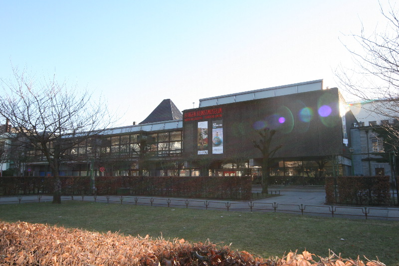 Stenersen Samlinger, Kunstmuseum, Bergen (Norway)